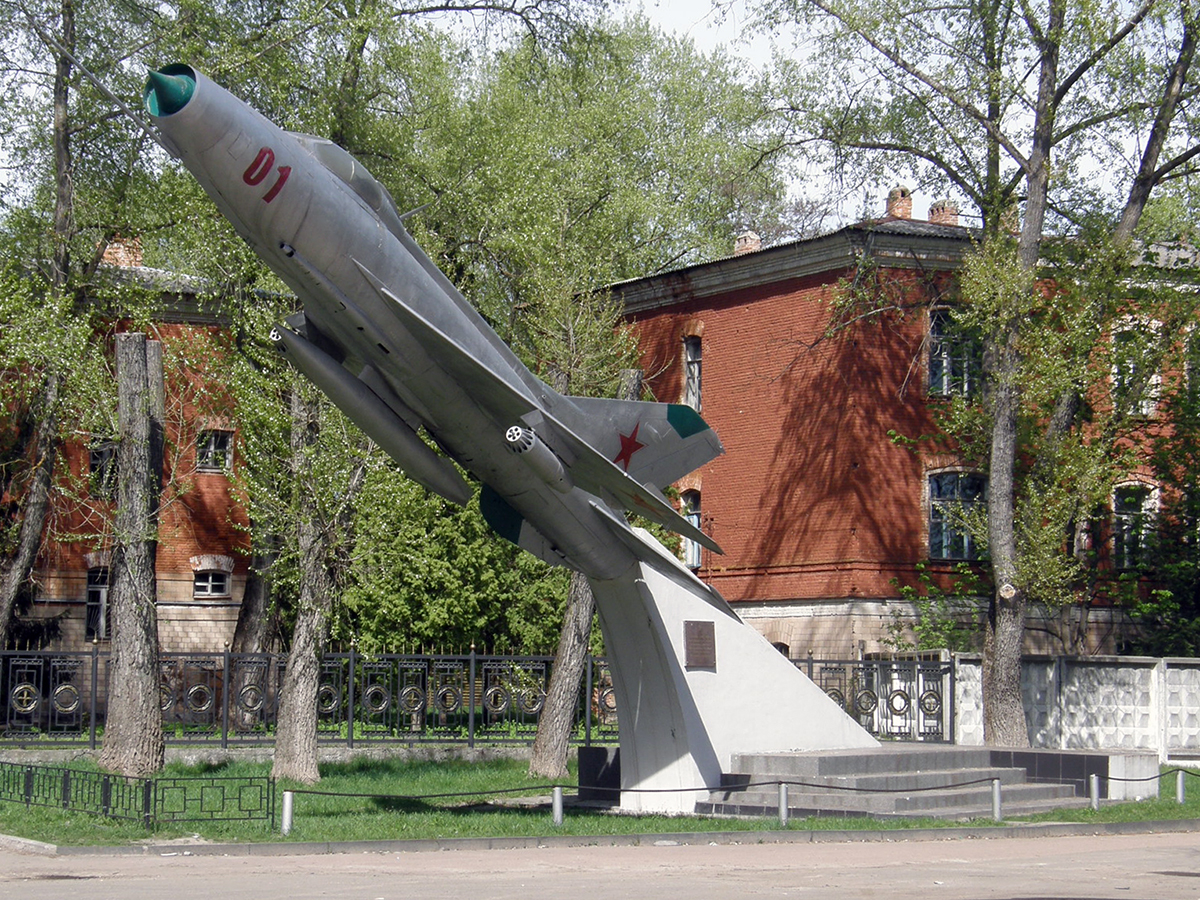 MiG-21, Chernigov, ChVVAUL